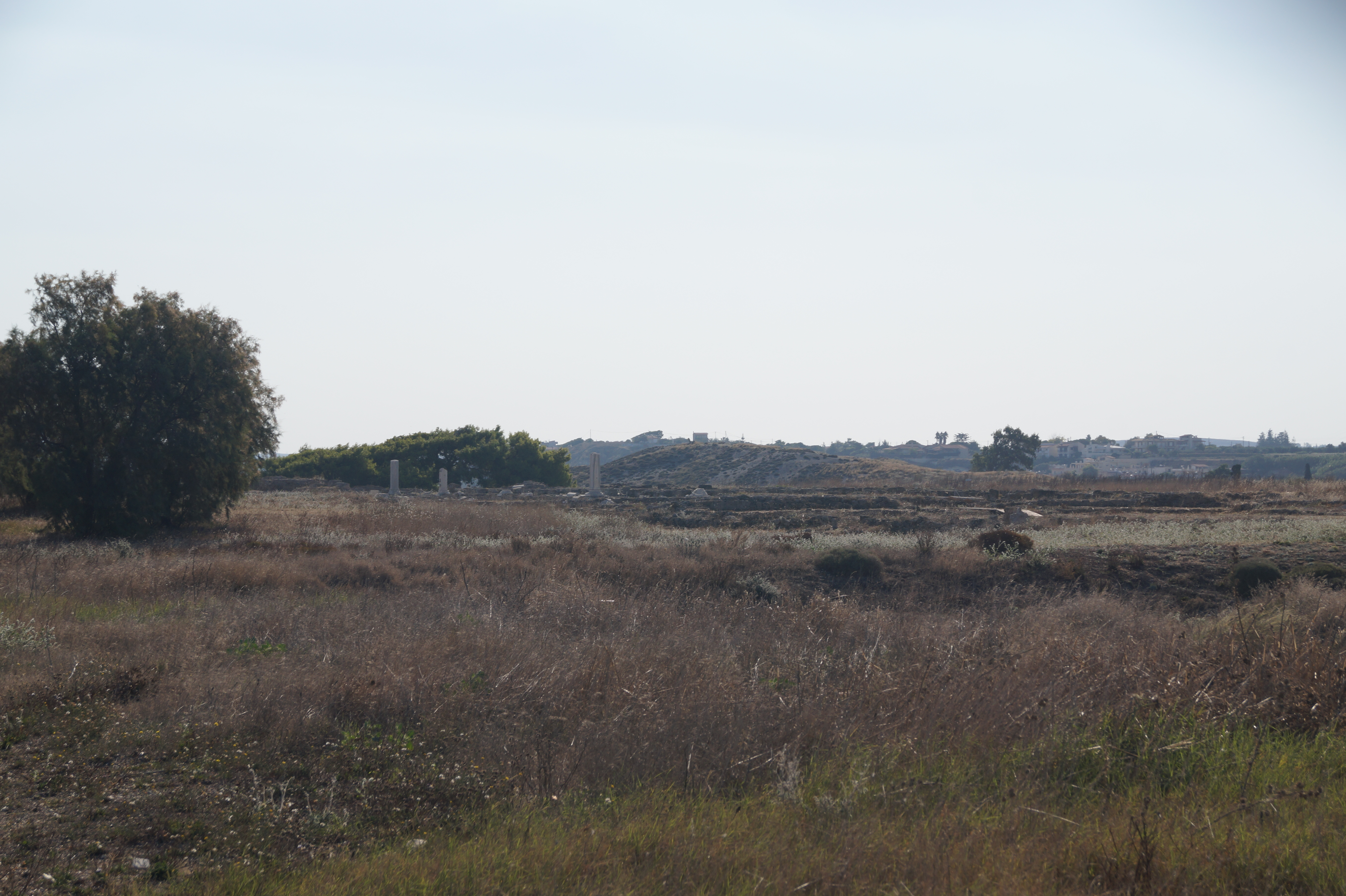 Corinth, Greece: Archaeological Site of Lechaion, Lechaion Basilica. View from the entrance of the site.